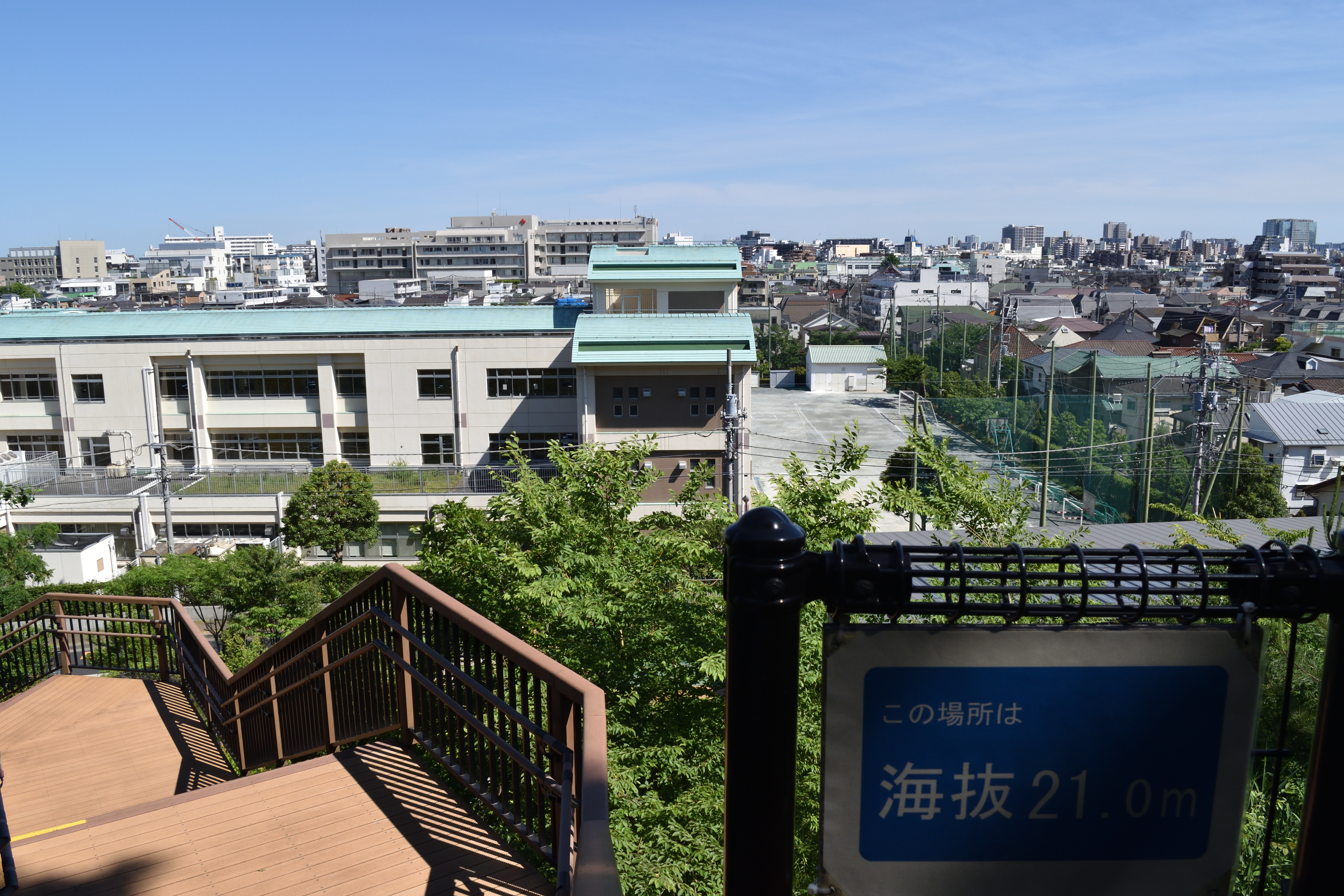 South-East view from the Saikiyama Green Hill in Ōta, Tokyo.